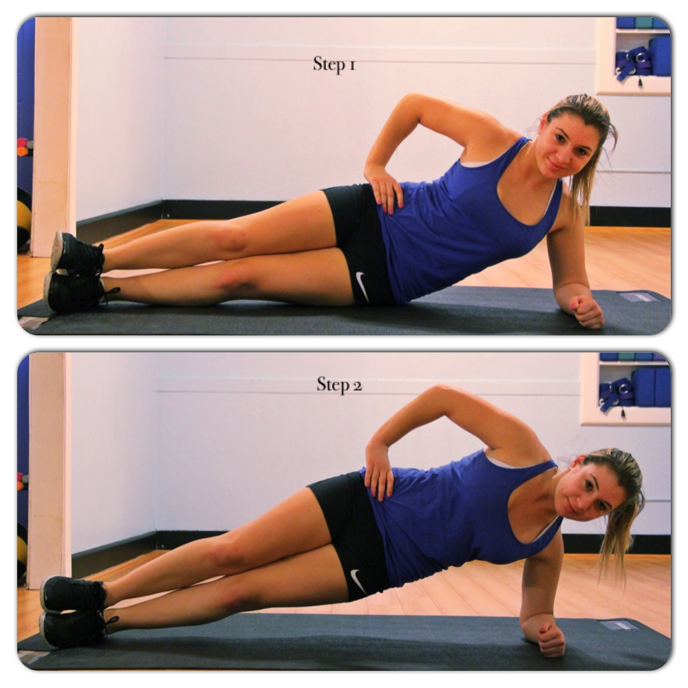 Side planks are a good variation of a core exercise that helps activate the obliques. In addition to strengthening the obliques, the side plank also targets the quadriceps, hamstrings and thigh adductors and abductors. This exercise will translate into a stronger back, core, and even lower leg muscles.